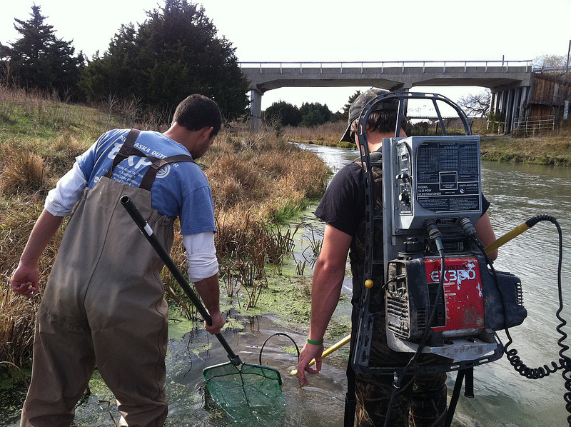 Surveying for the plains topminnow in the Nebraska Sandhills. Location: Dismal River near Halsey, Nebraska Credit: Lindsay Vivian / USFWS Photo Contest Entry #42